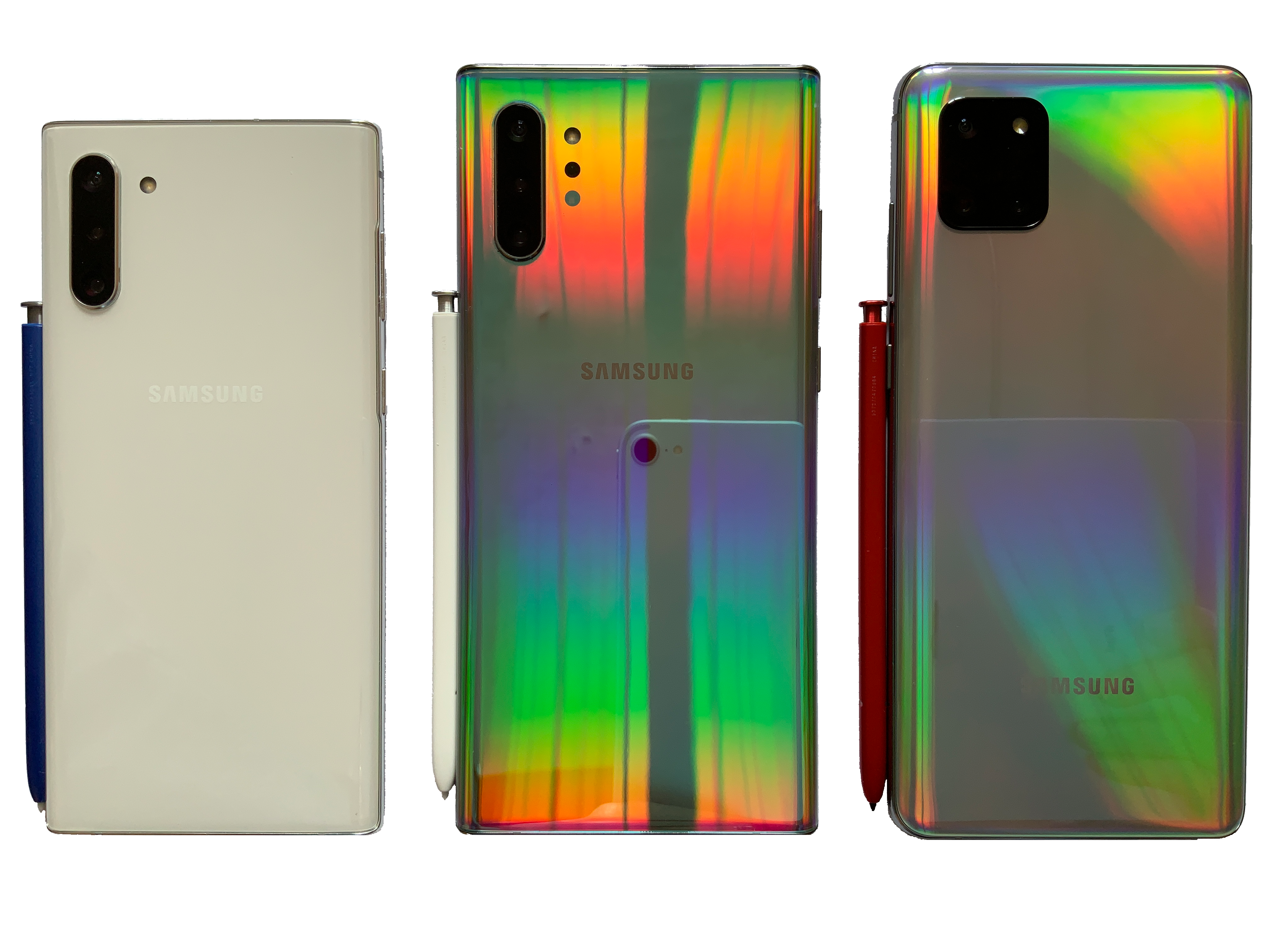 SAMSUNG Galaxy Note10 SAMSUNG Galaxy Note10+ SAMSUNG Galaxy Note10 Lite